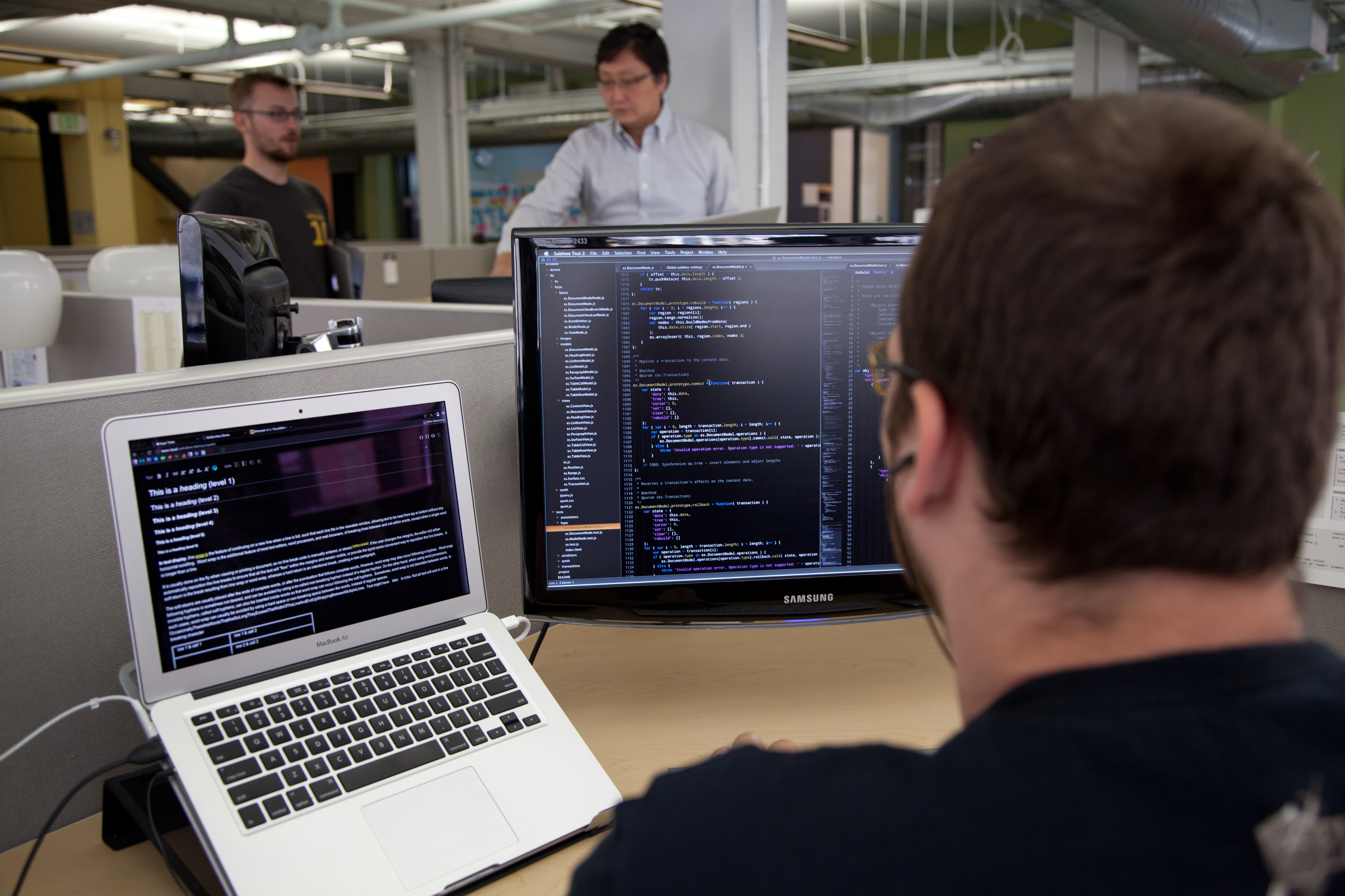 Trevor Parscal coding in the Wikimedia Foundation offices. The image shows the back of a bearded brunette caucasian male with glasses wearing earphones in front of two screens and keyboards.